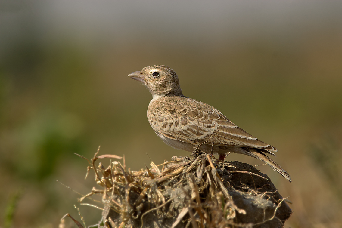 Female(Sulthanpur, Haryana, India)